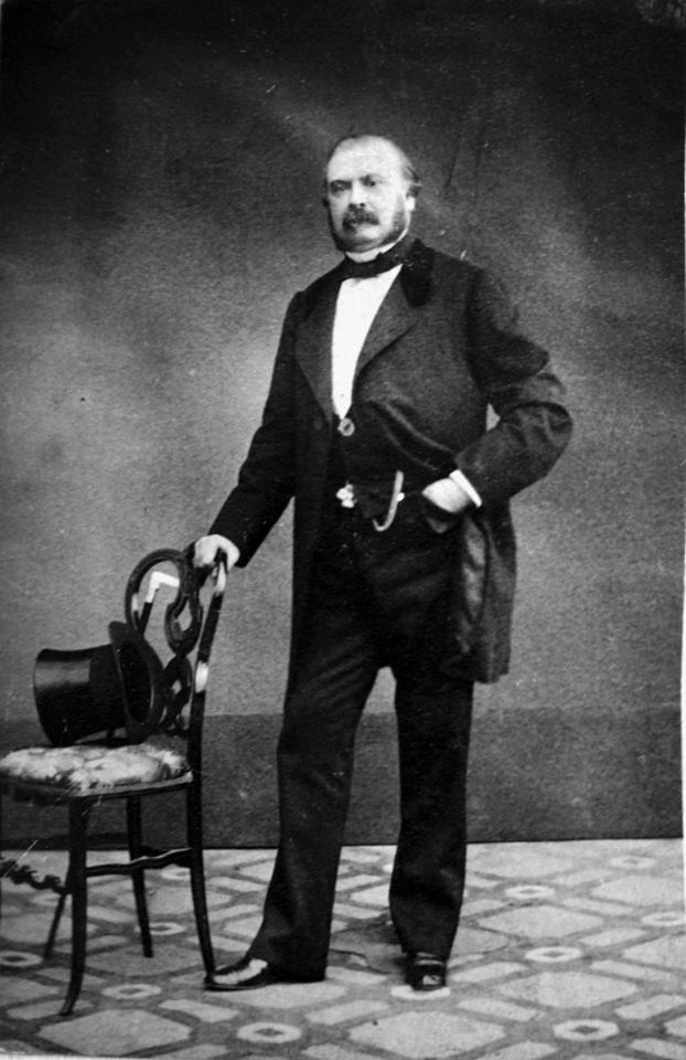 Juan Tomás Comyn y Martínez, Spanish ambassador to London from 1863 to 1874.